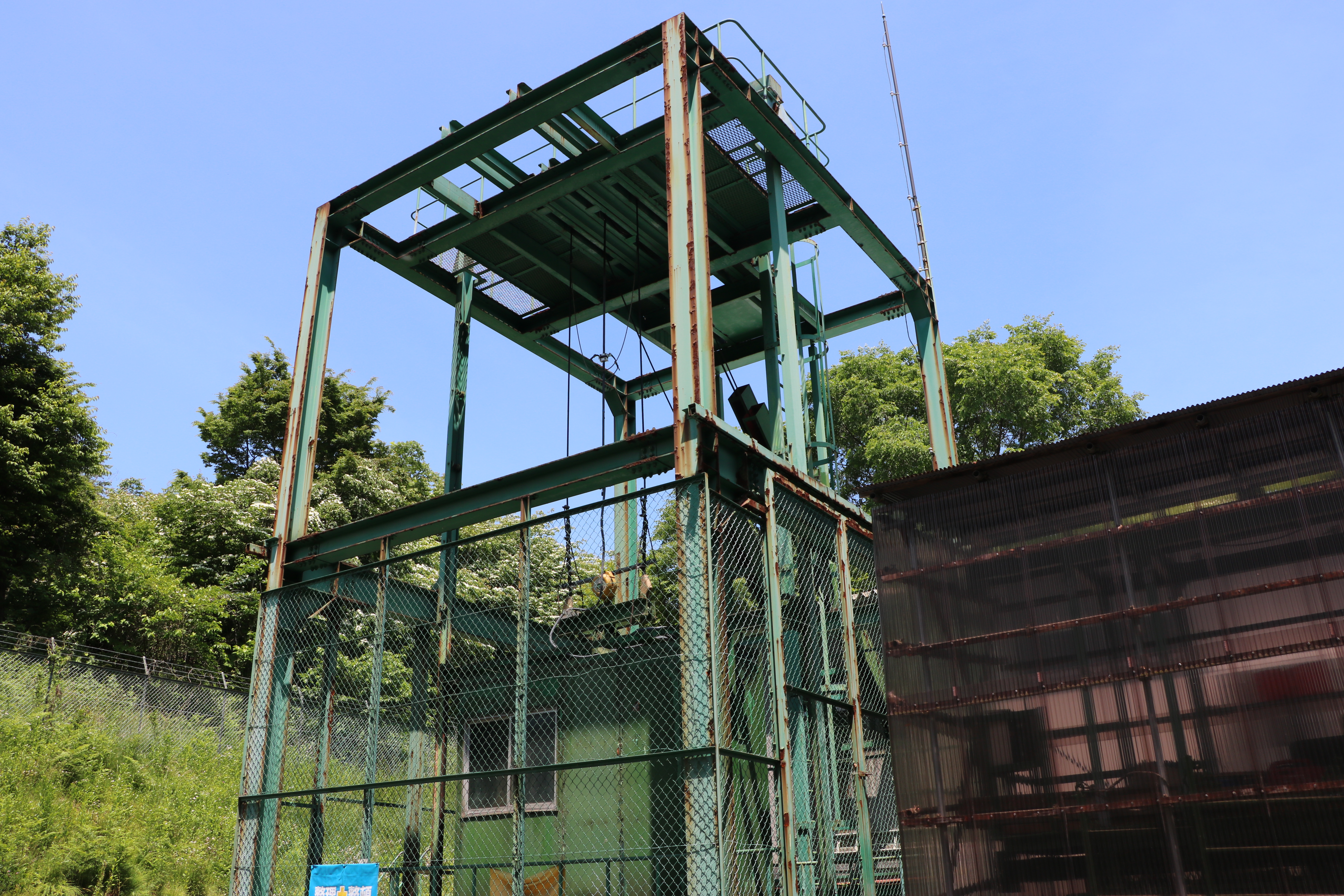 Trace of construction work for Shihogi district vertical shaft construction